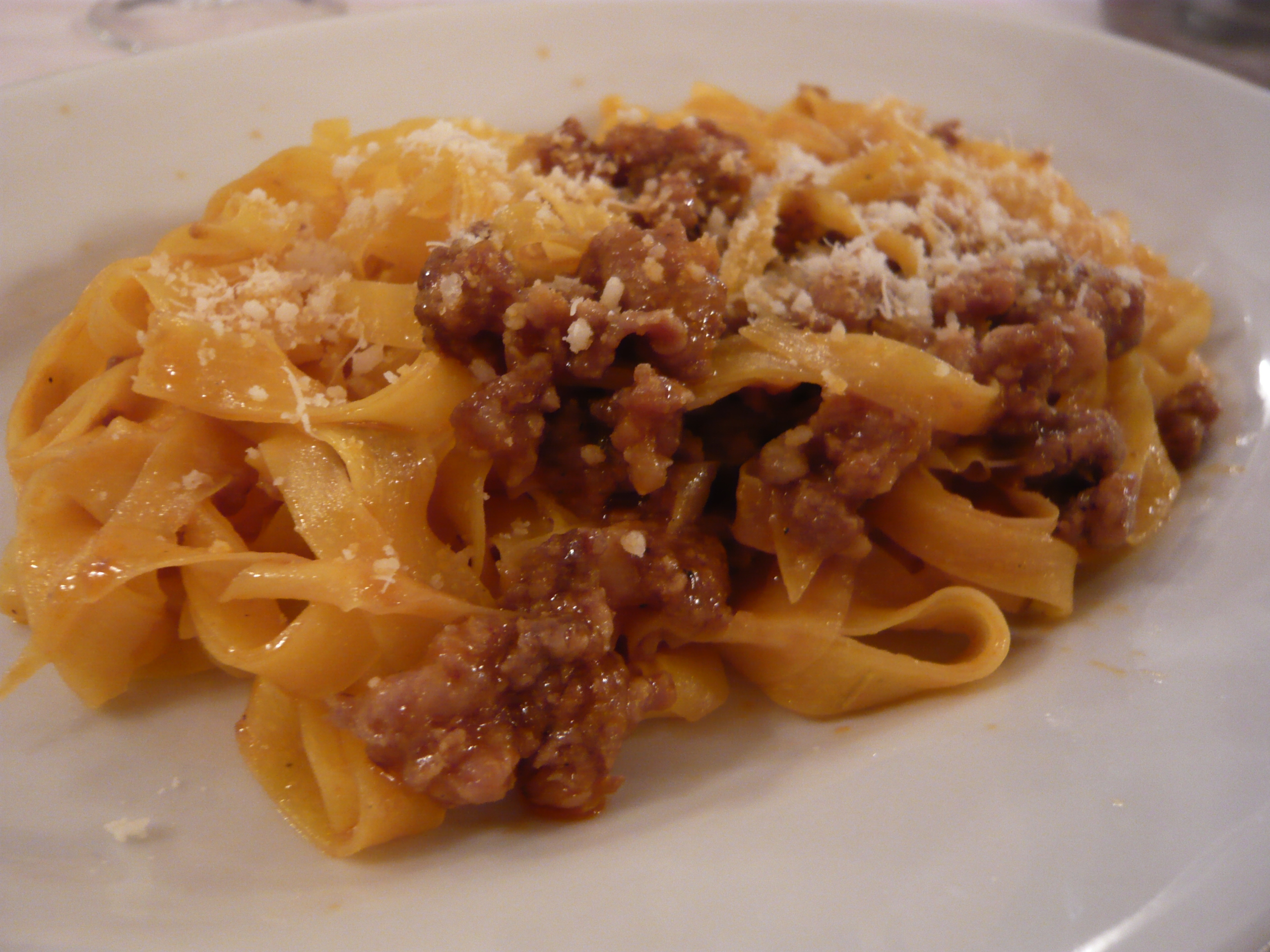 A dish of tagliatelle with original bolognese sauce as served in Bologna